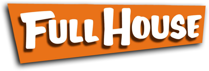 Logo of the 1987 TV series Full House